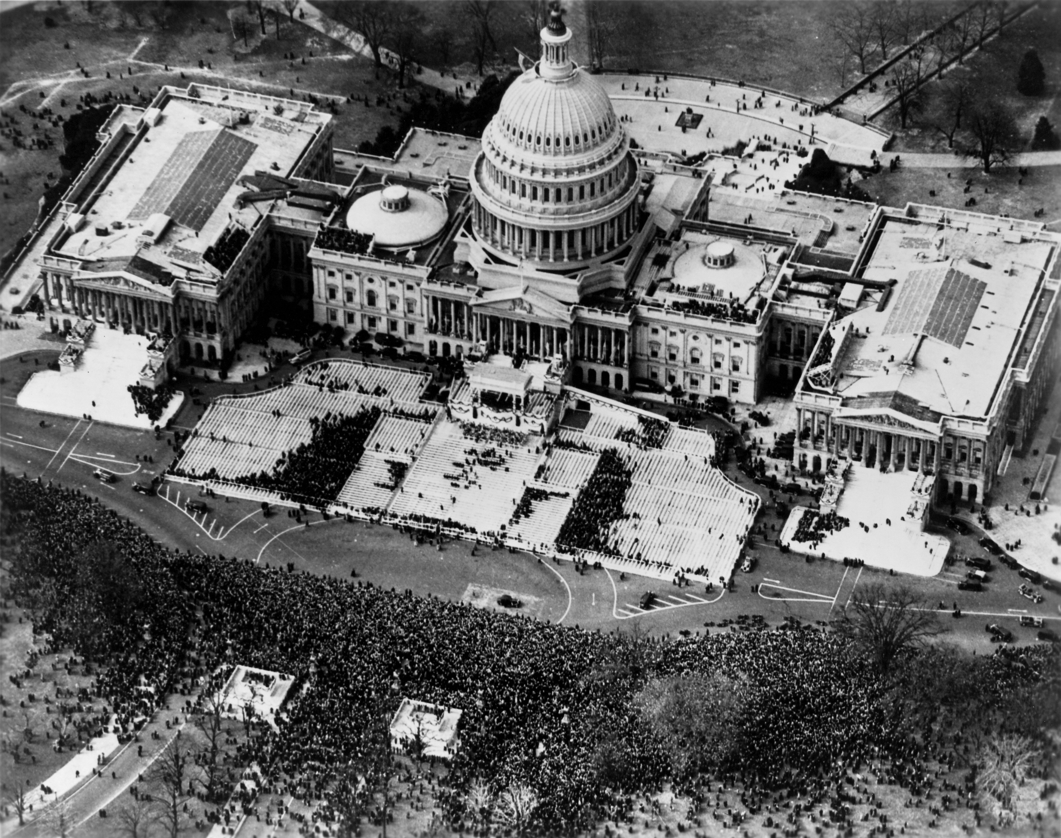 FDR inauguration